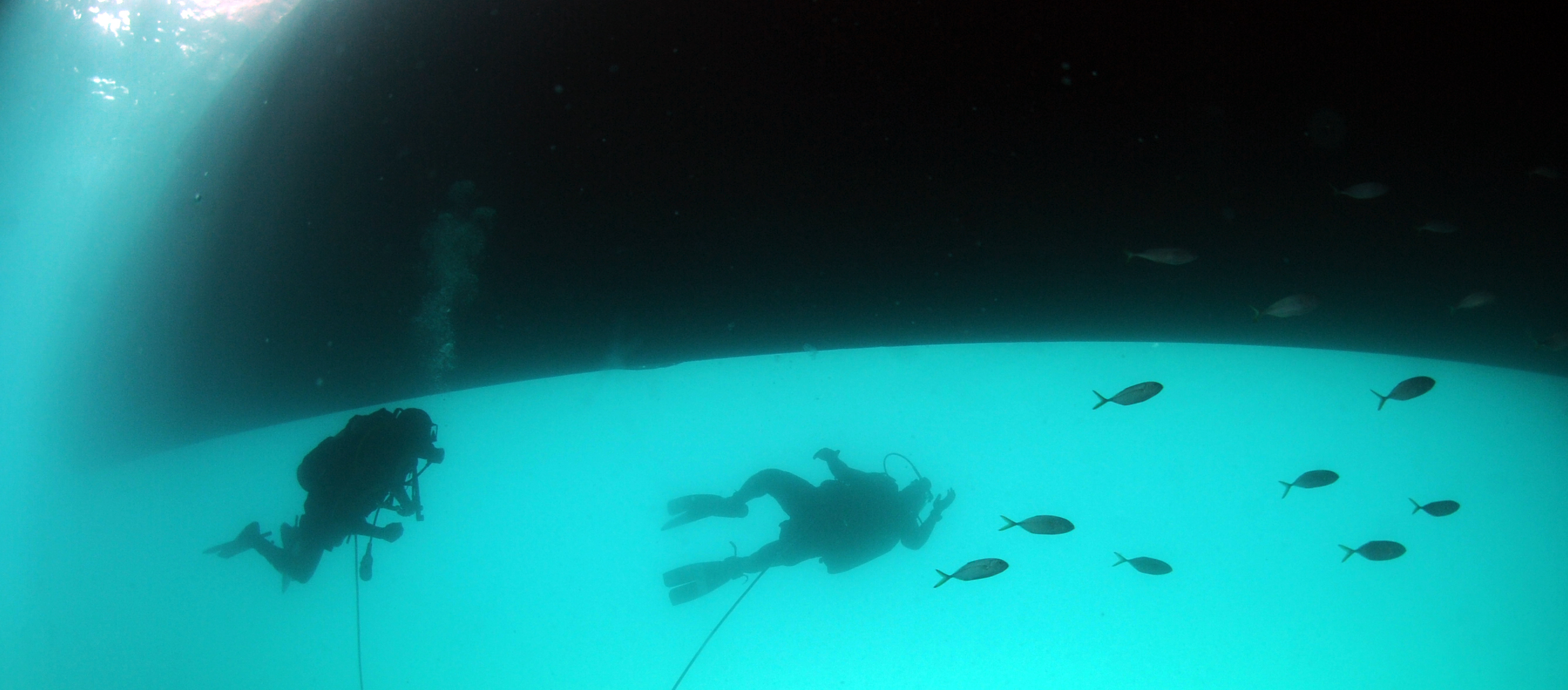 BRIDGETOWN, Barbados (June 9, 2011) Constable Gaueline Brouet, from the St. Lucia Marine Police, right, and Constable Dion Moses, from the Dominica Marine police, maneuver under a Barbadian coast guard ship looking for an inert training explosive. Divers from several Caribbean countries are using the magnet training mines to simulate an underwater threat. MDSU-2 is participating in Navy Diver-Southern Partnership Station, a multinational partnership engagement designed to increase interoperability and partner nation capacity through diving operations. (U.S. Navy photo by Mass Communication Specialist 1st Class Jayme Pastoric/Released)